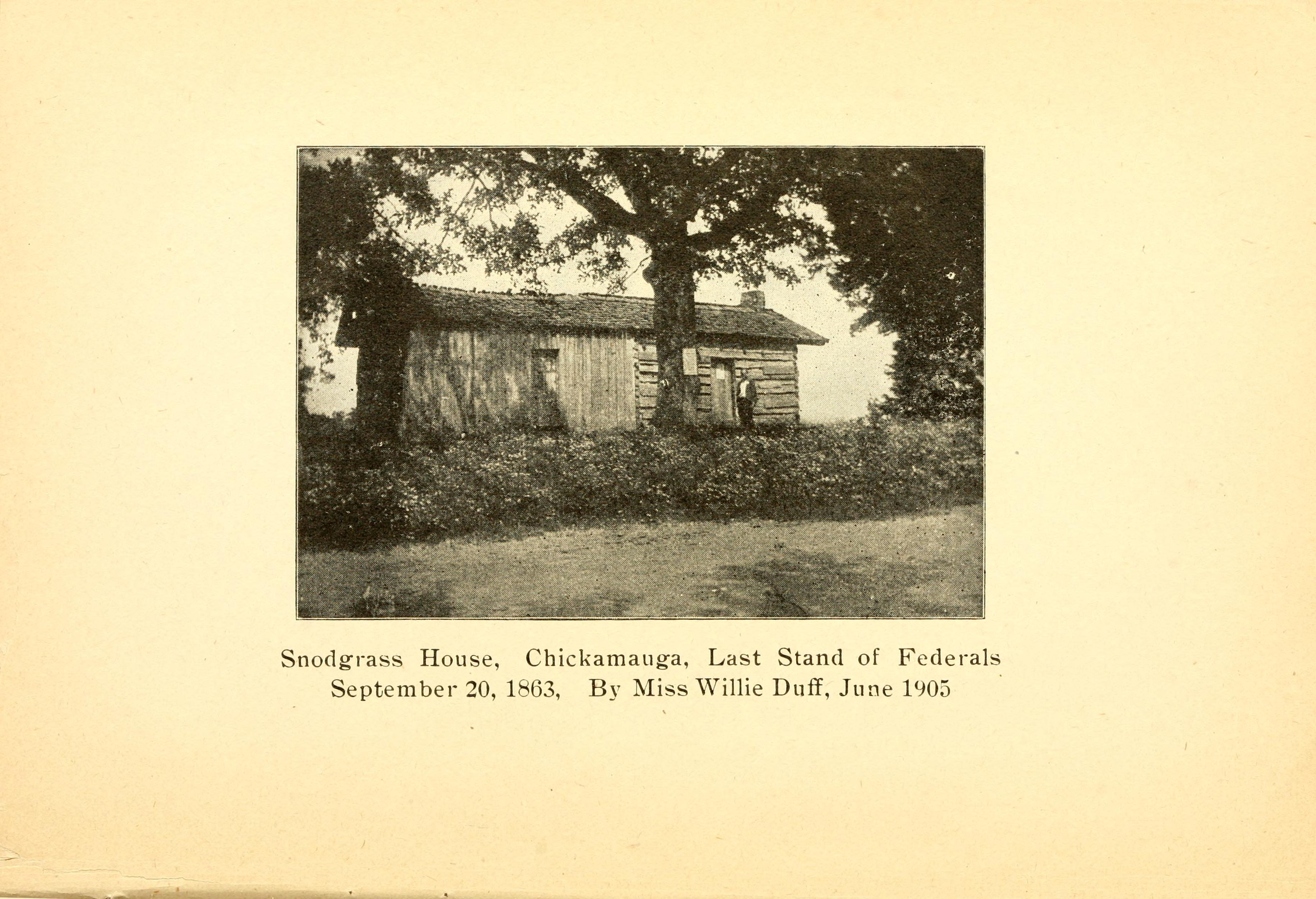 Title: Terrors and horrors of prison life; or, Six months a prisoner at Camp Chase, Ohio Year: 1907 (1900s) Authors: Duff, William Hiram, 1844- Subjects: Camp Chase (Ohio) Publisher: (Lake Charles, La., Orphan Helper Print Text Appearing Before Image: e no more exchange of prisoners, that the United States government would not sanction it and that I would go to prison and be confined untill the close of the war. Col. Love suddenly stopped talking and saluting as he did so a horseman that rode up saying, Well Doctor we captured those redoubts all the same, Yes Colonel, replied the Doctor we captured them but they cost us dear fifty ambulances full of dead and wounded, and we captured only a handful of prisoners, they were protected by strong redoubts, and fought like devils and put in their work well, besides we cannot hold that point. Col. Love gave a low whistle and exclaimed, you dont say so Doctor that is awful. Our guard had us to fall into line and took us farther back to the rear where there was no troop. Soon they drew their ration and divided with us, they were real clever men. It has been my good forture now after many years to see Genl Shermans report of the 5th day of August 1864 nrl aQ it JR the same affair that I have written about I Text Appearing After Image: '